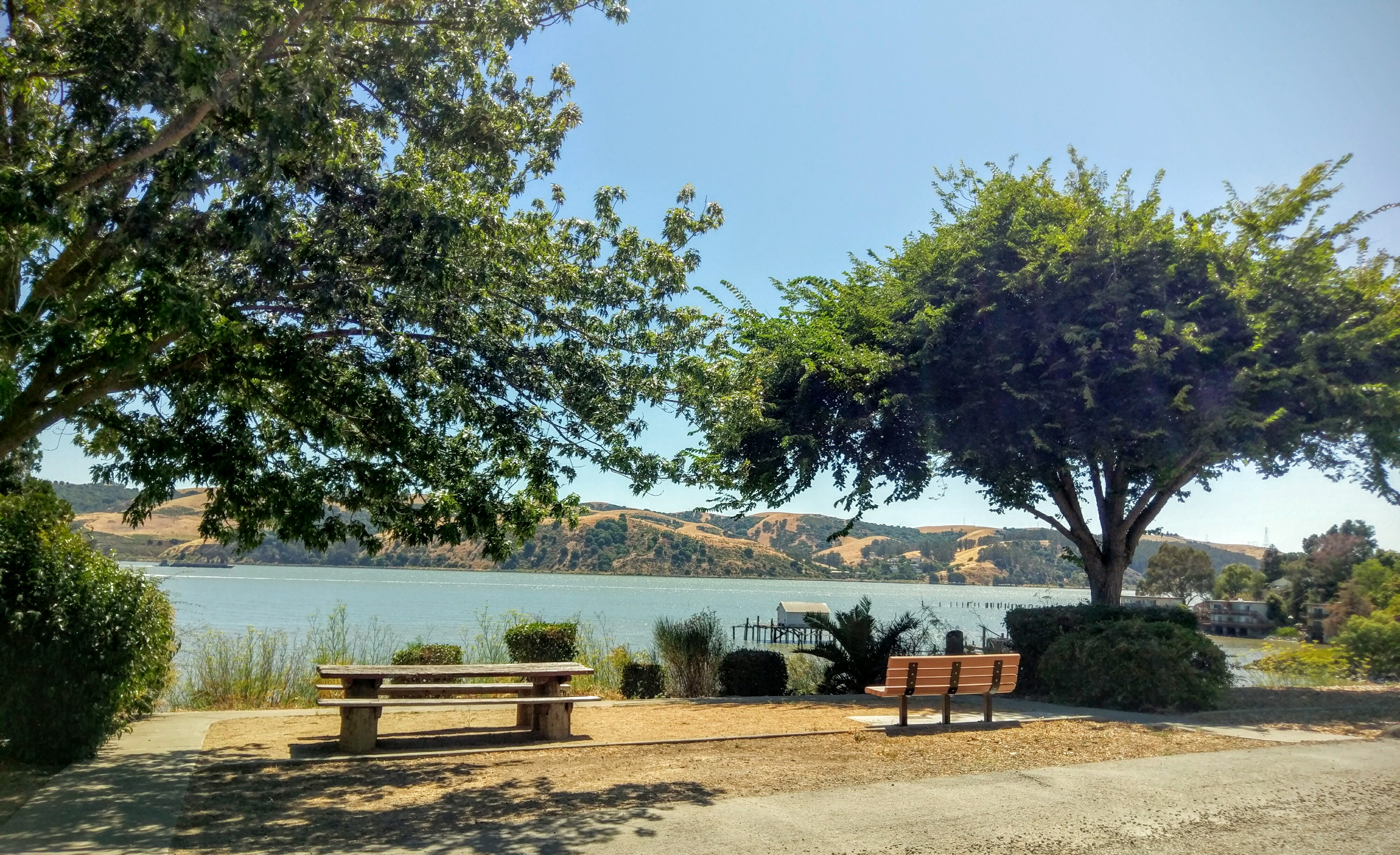 A park in Benicia, California commemorating sculptor Robert C. Arneson. Photo by Jim Heaphy.